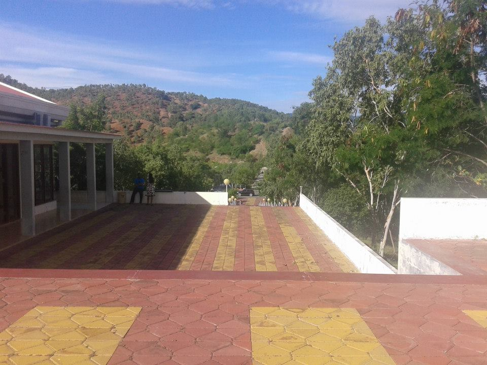 Ioannes Paulus II Monument in Tasitolu